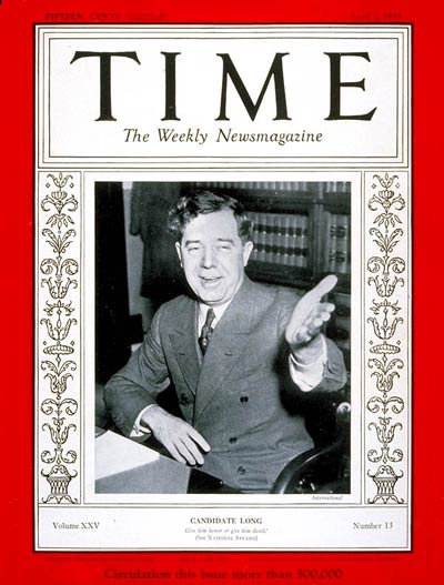 April 1, 1935, cover of Time magazine (Vol. 25 no. 13) featuring Huey Long.